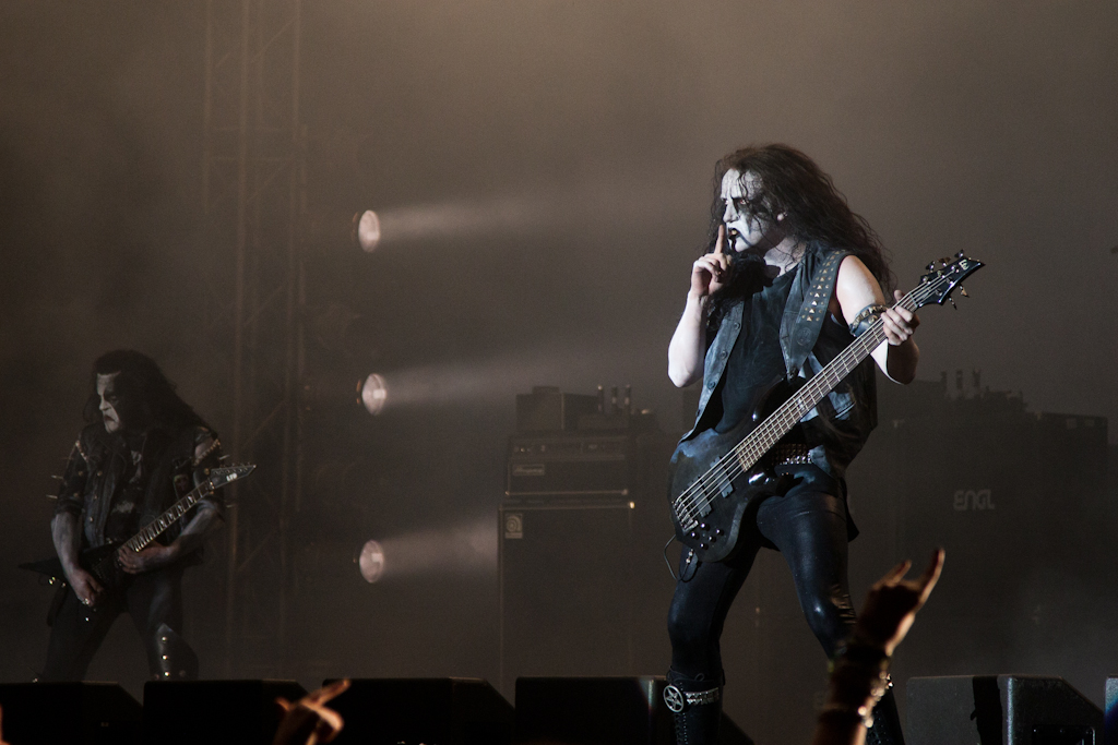 Immortal live at Getaway Rock Festival 2011, Gävle, Sweden.